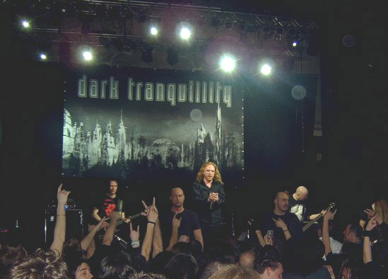 Dark Tranquillity